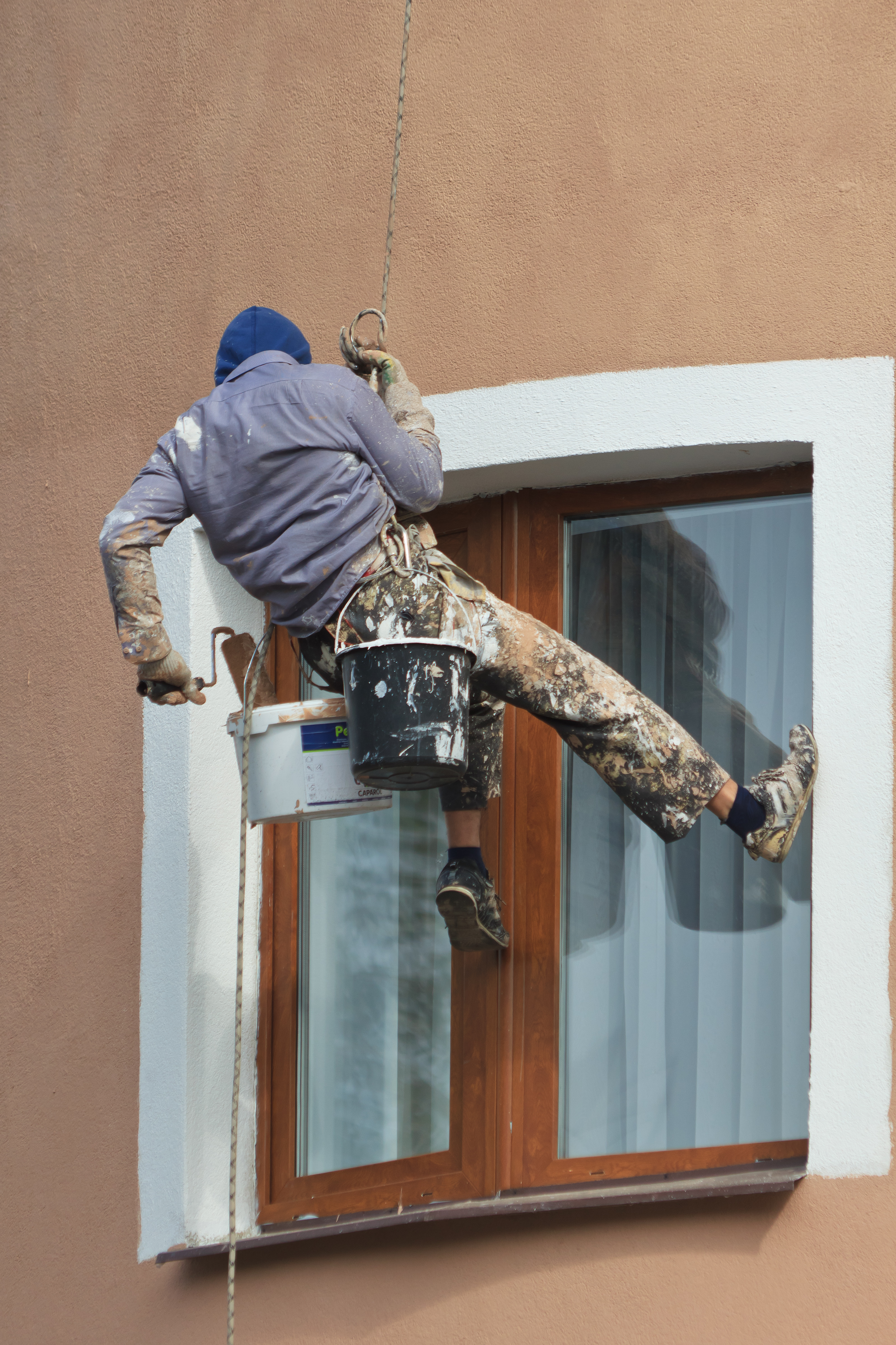 Moscow, Russia. Façade painting at Bolshaya Polyanka Street.